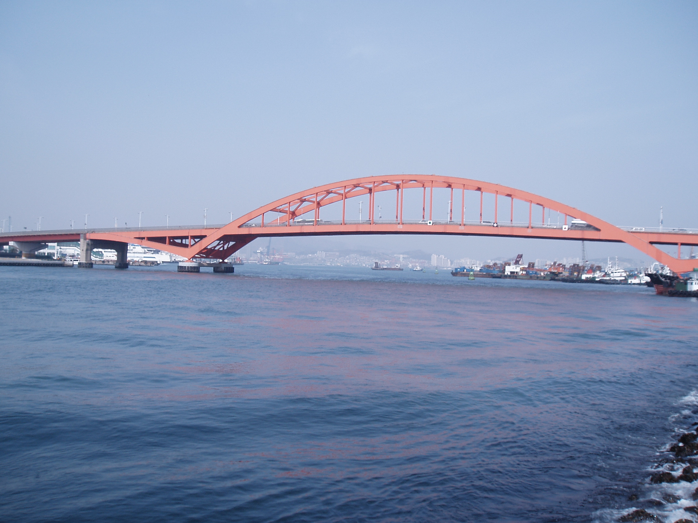 Busan Bridge in Busan Nam Harbor